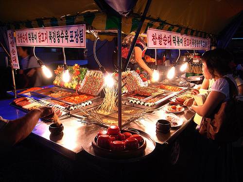 Pojangmacha, street food cart which sells various popular foods in South Korea